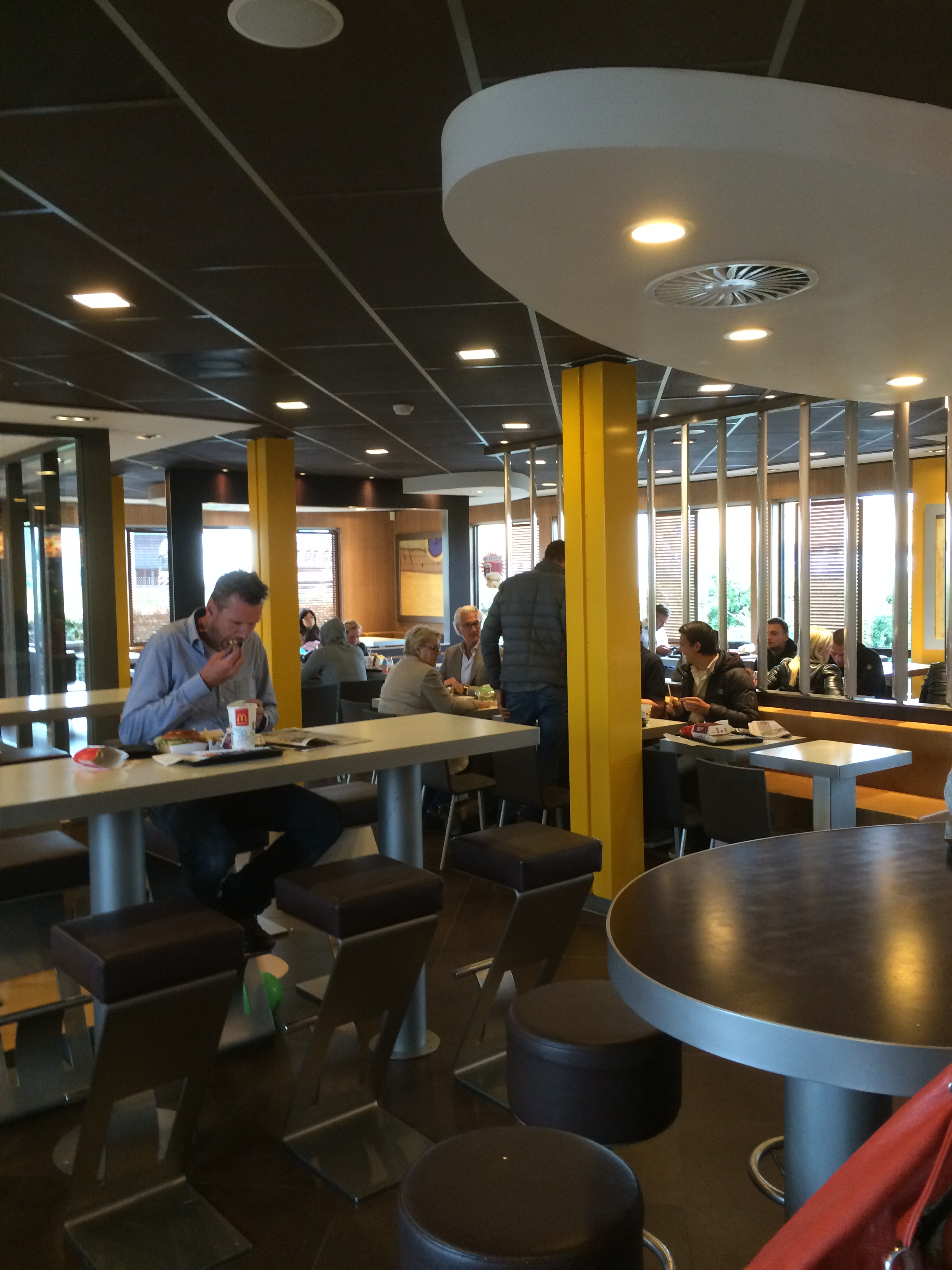 Mc Donald Inside